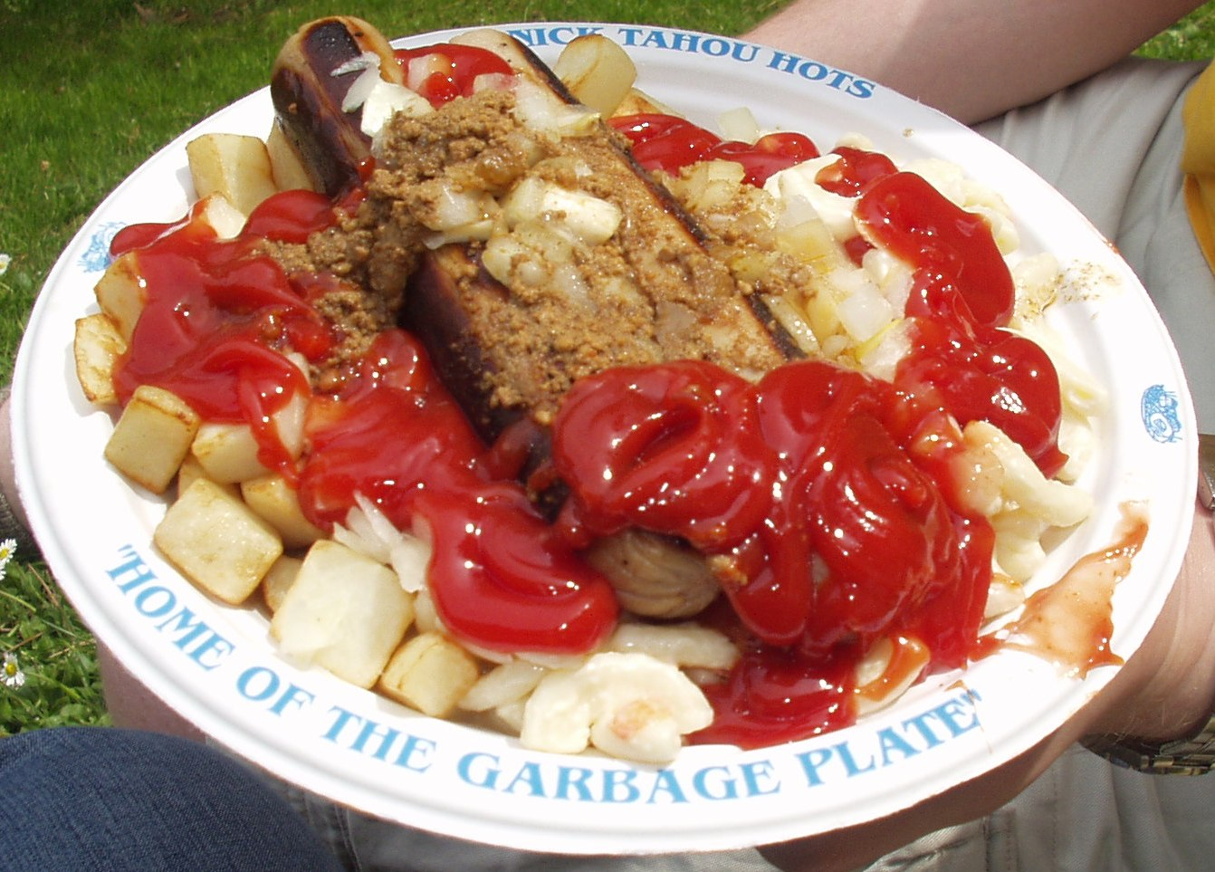 A "Garbage Plate" from Nick Tahou Hots in Rochester New York.